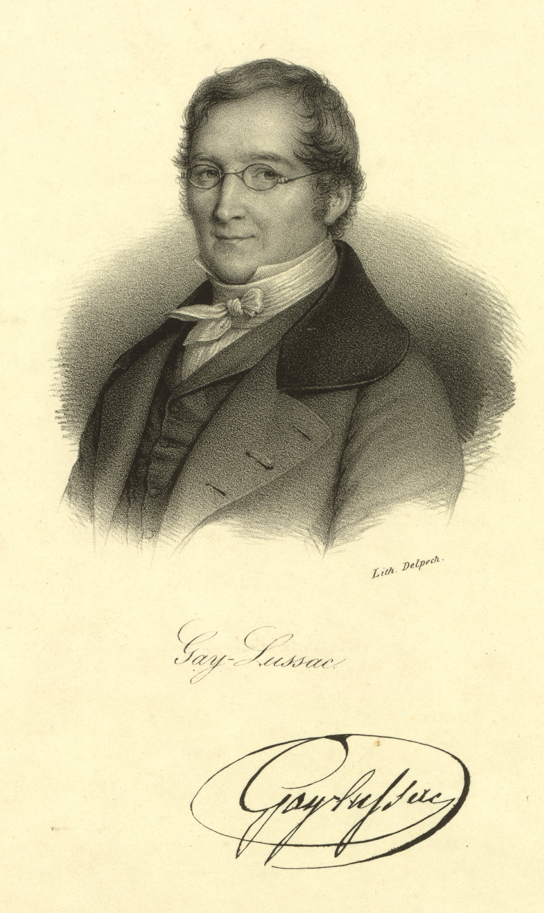 Portrait of Joseph Louis Gay-Lussac, French physicist and chemist